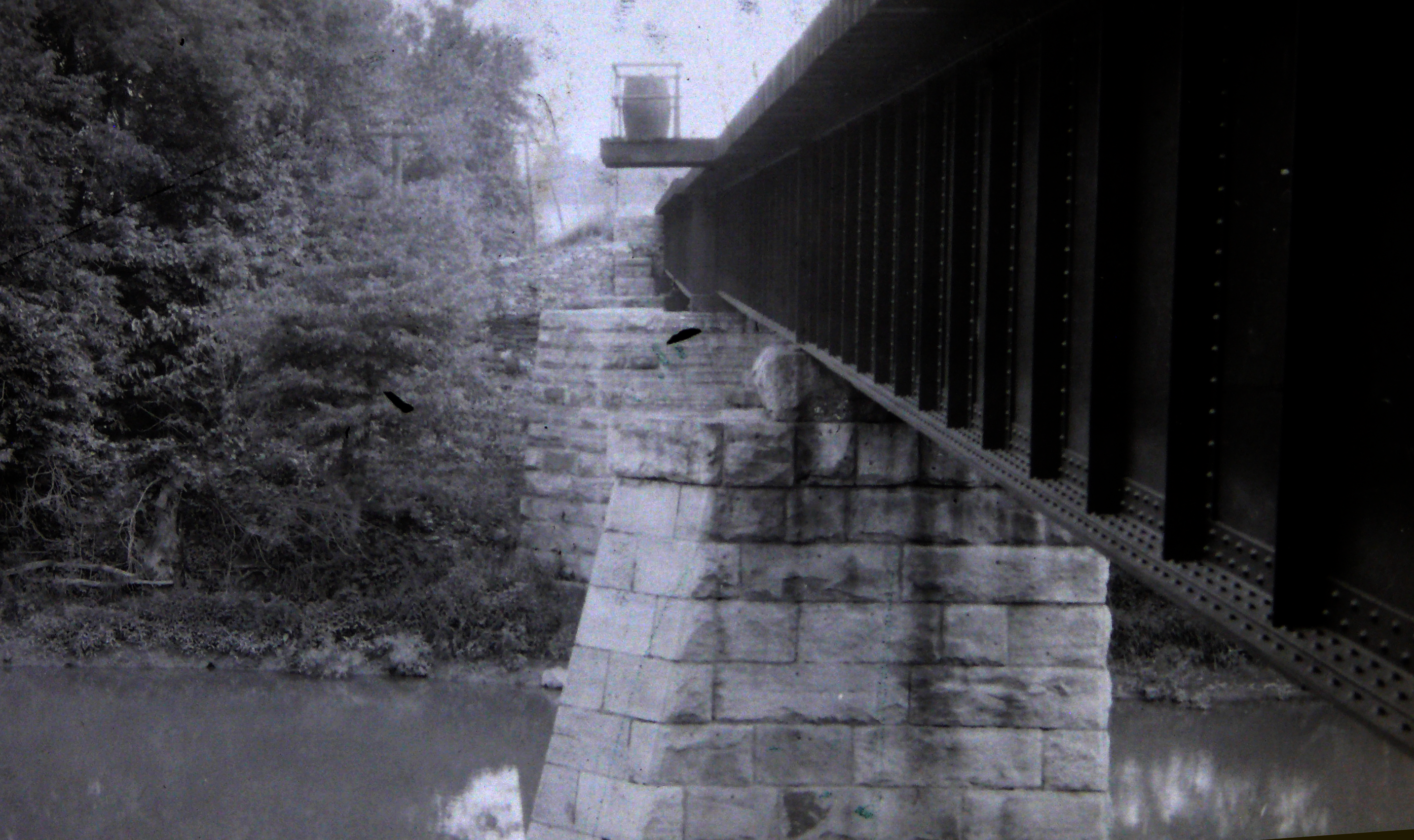 Interstate Commerce Commission survey of the Frederick and Northern railroad, predecessor (Frederick and Pennsylvania Line Railroad Company (F&PL)) bridge and viaduct taken in December 1915 as bridge 65.35. The bridges crosses the Monocacy River.